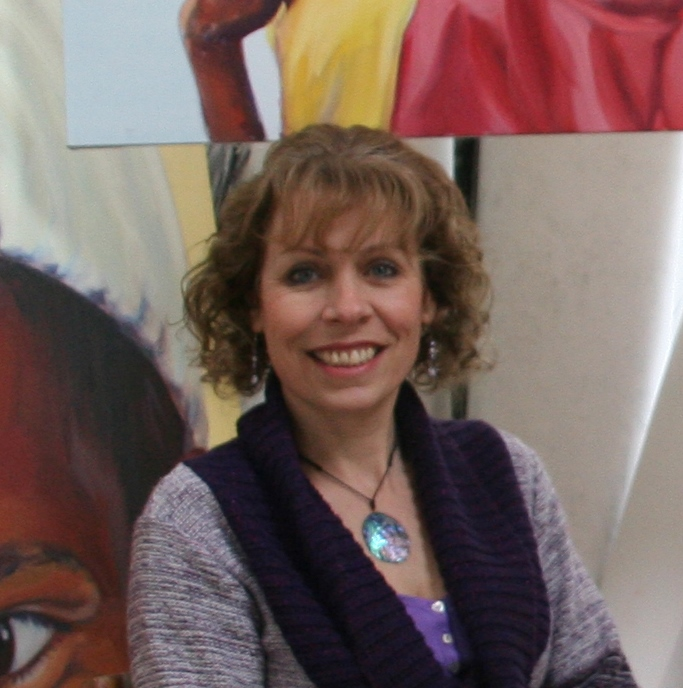 Photographic portrait of British artist Claire Phillips